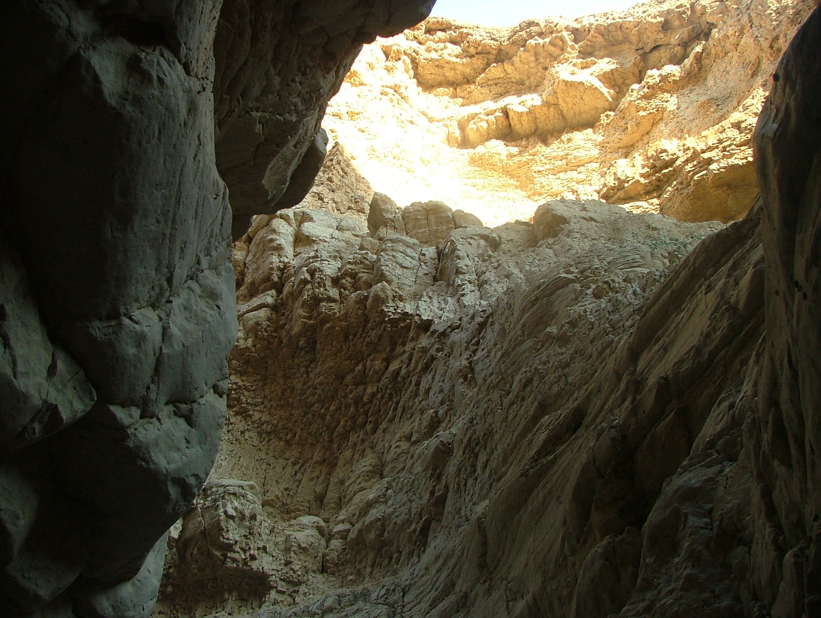 Wadi Og, The Judaean Desert.